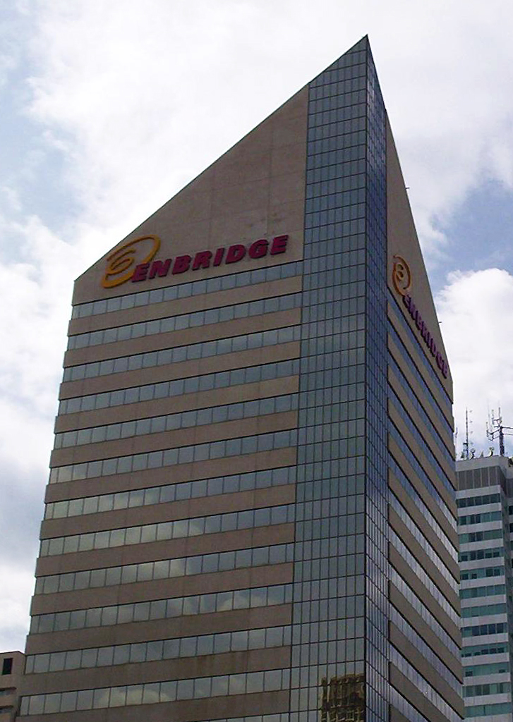 Enbridge building in Edmonton, Alberta. Category:Enbridge